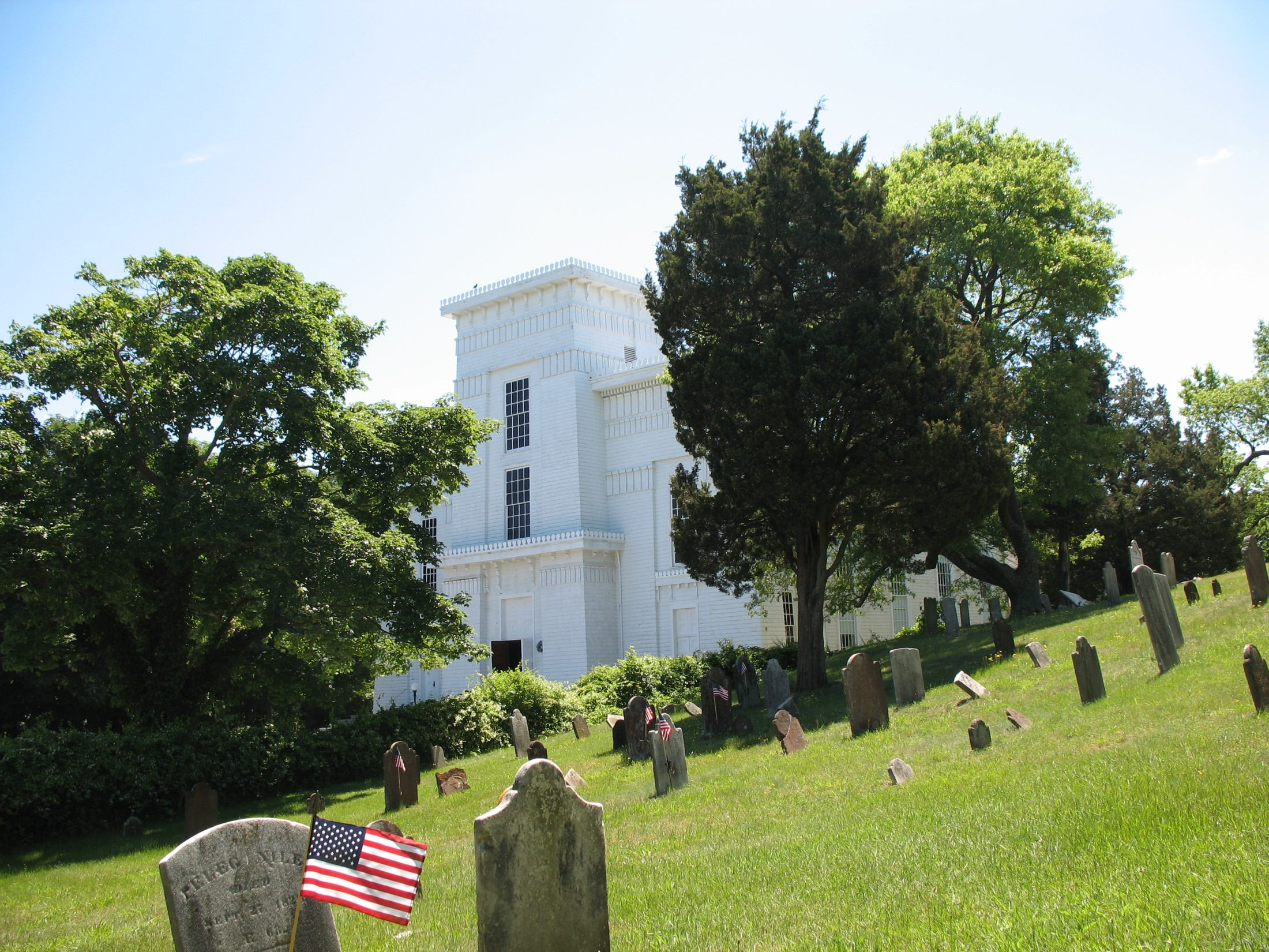 Whalers Church and Old Burial Ground in Sag Harbor, New York. The steeple toppled in the Great Hurricane of 1938 and the old burial ground was a British fort that was attacked in Meigs Raid during the American Revolution. Photo by poster in June 2007.